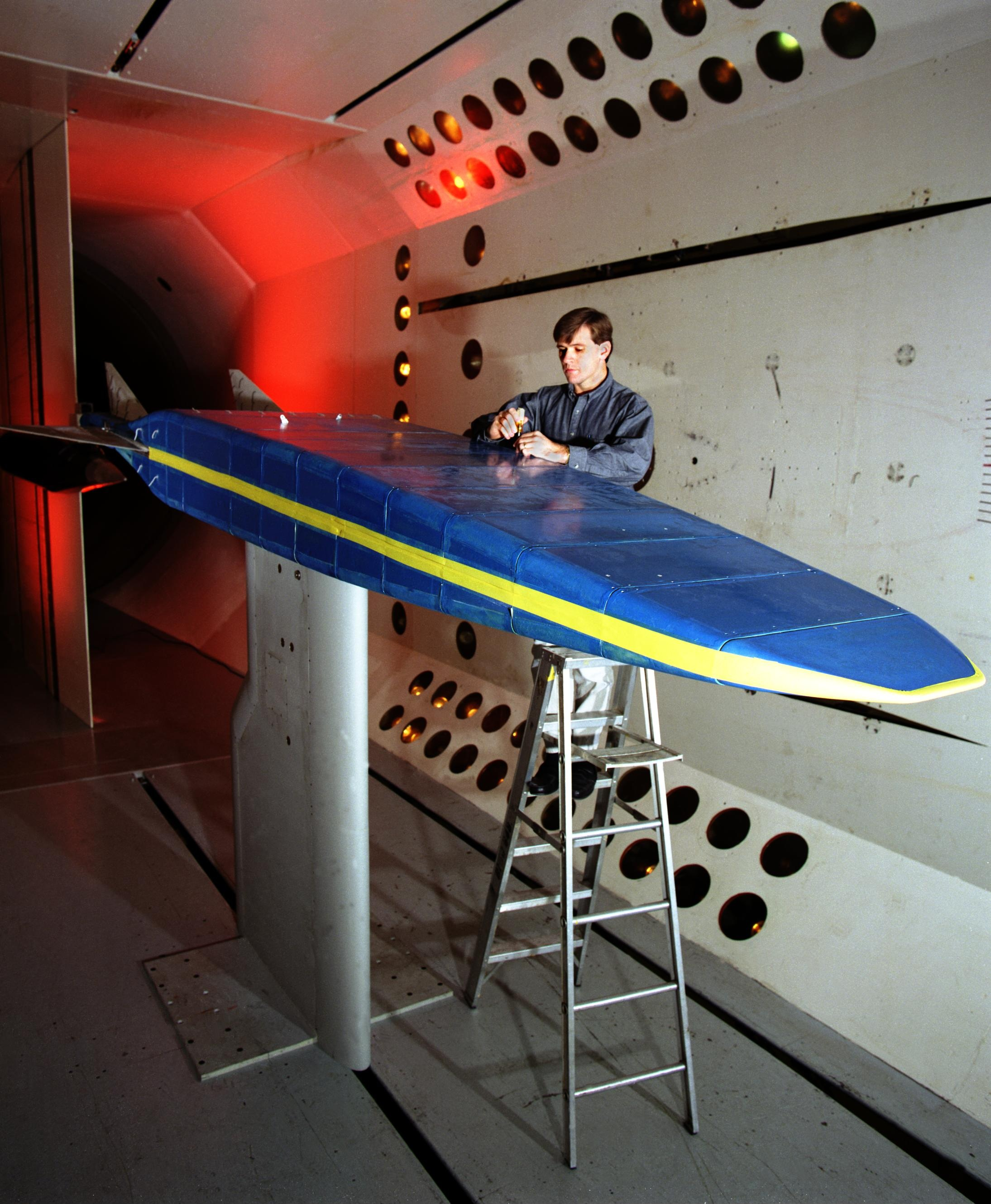 The proposed National Aerospace Plane (NASP) consists of a long, flexible, lifting-body fuselage and relatively small, highly swept, all-movable, clipped-delta wings. The fuselage flexibility and the all-movable feature of the clipped-delta wings may make the vehicle susceptible to aeroelastic instabilities throughout the flight envelope. A wind-tunnel test of a NASP model was conducted to meet three objectives: to measure the flutter mechanism inherent to this type of vehicle; to examine the effect of parametric variations on the flutter behavior of the model; and to correlate the experimental data with analysis. A tenth-scale representation of an unclassified version of the NASP vehicle was flutter tested in the Transonic Dynamics Tunnel (TDT). This representation was a full-span model with pitch and plunge degrees of freedom simulated with springs in the floor mount. The model had all-movable, clipped-delta wings and cantilevered, clipped-delta vertical fins. The stiffness of the wing actuators was simulated with springs. A photo of the model mounted in the wind tunnel is shown in the figure. A flutter analysis of the model was performed using calculated linear, lifting-surface aerodynamics. The wind-tunnel test of this model showed the NASP-type vehicles employing single-pivot, all-movable wings are susceptible to body-freedom flutter. The test results show that increasing the wing-actuator-pitch stiffness can make the body-freedom flutter instability less critical. The correlation of flutter analysis to the experimental data indicates that the mathematical tools used in this study were sufficient to predict the body-freedom flutter encountered in the wind tunnel.